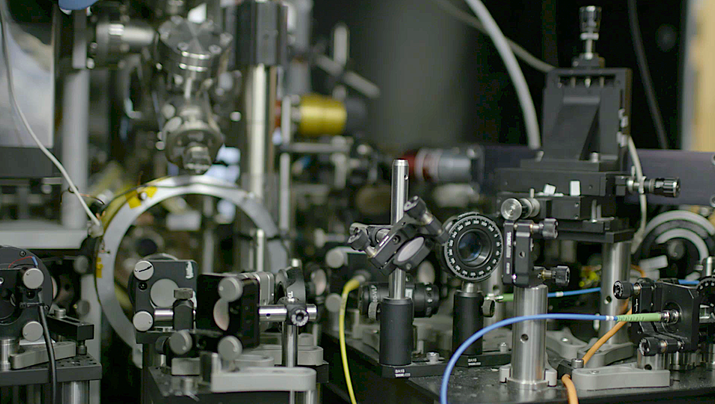 The optics set-up in Mikkel Andersen's lab, Department of Physics, University of Otago, that his team has designed and built to achieve world-record control over individual atoms.